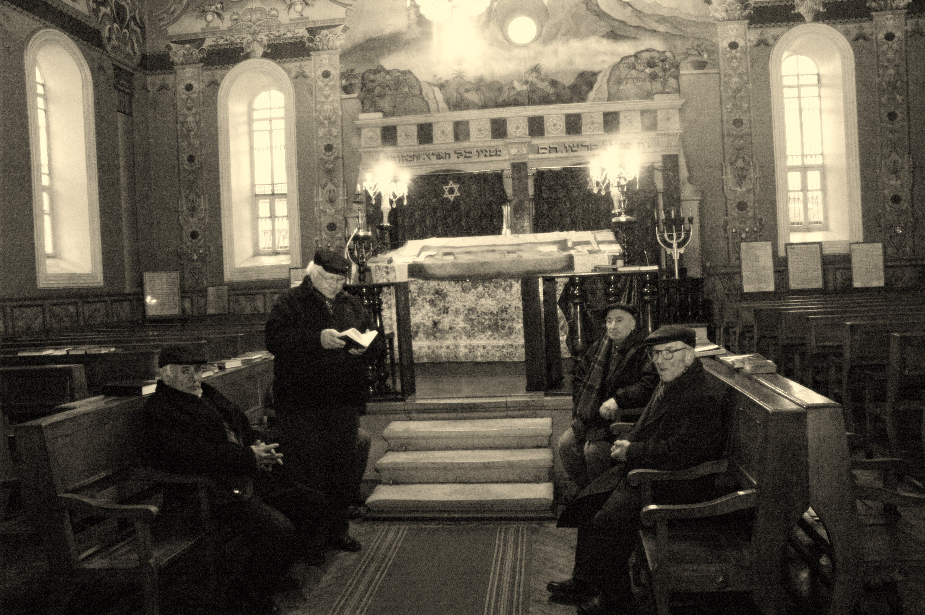 Synagogue of Kutaisi, Georgia